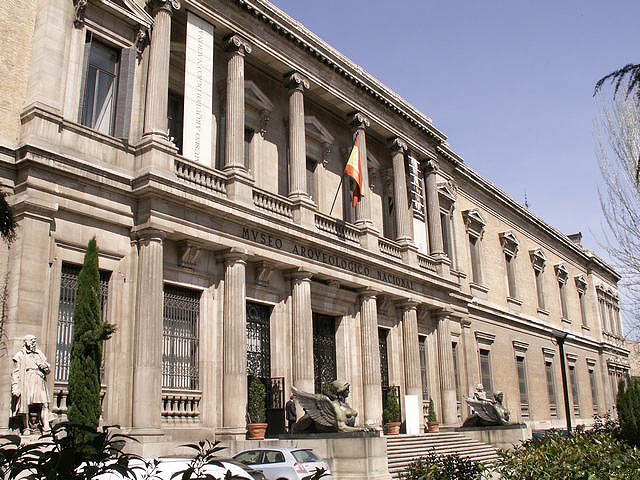 Façade of the National Archaeological Museum of Spain, in Madrid. The building was projected by architect Francisco Jareño (1818–1892) and built between 1866 and 1892.